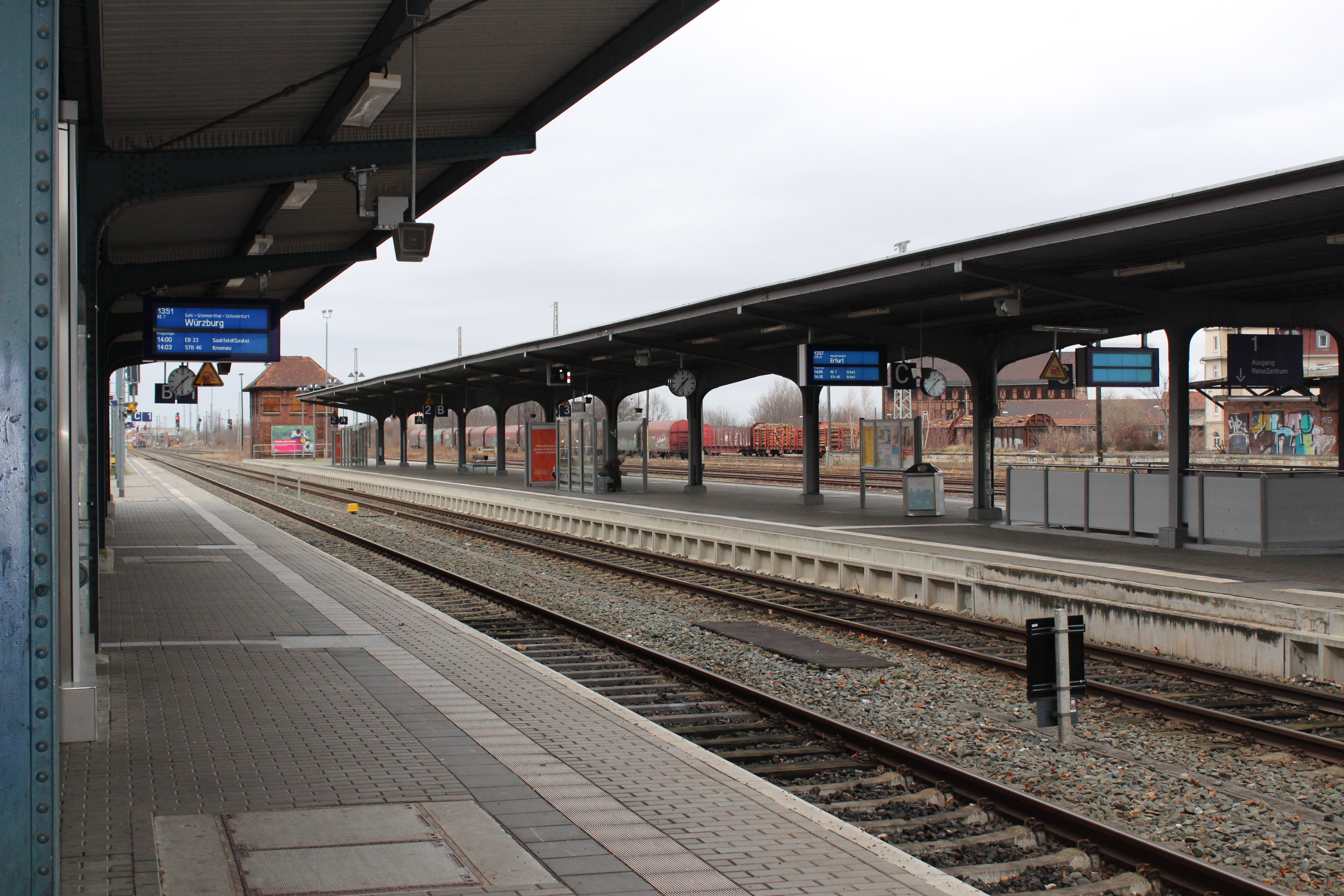 train station Arnstadt mainstation, platforms